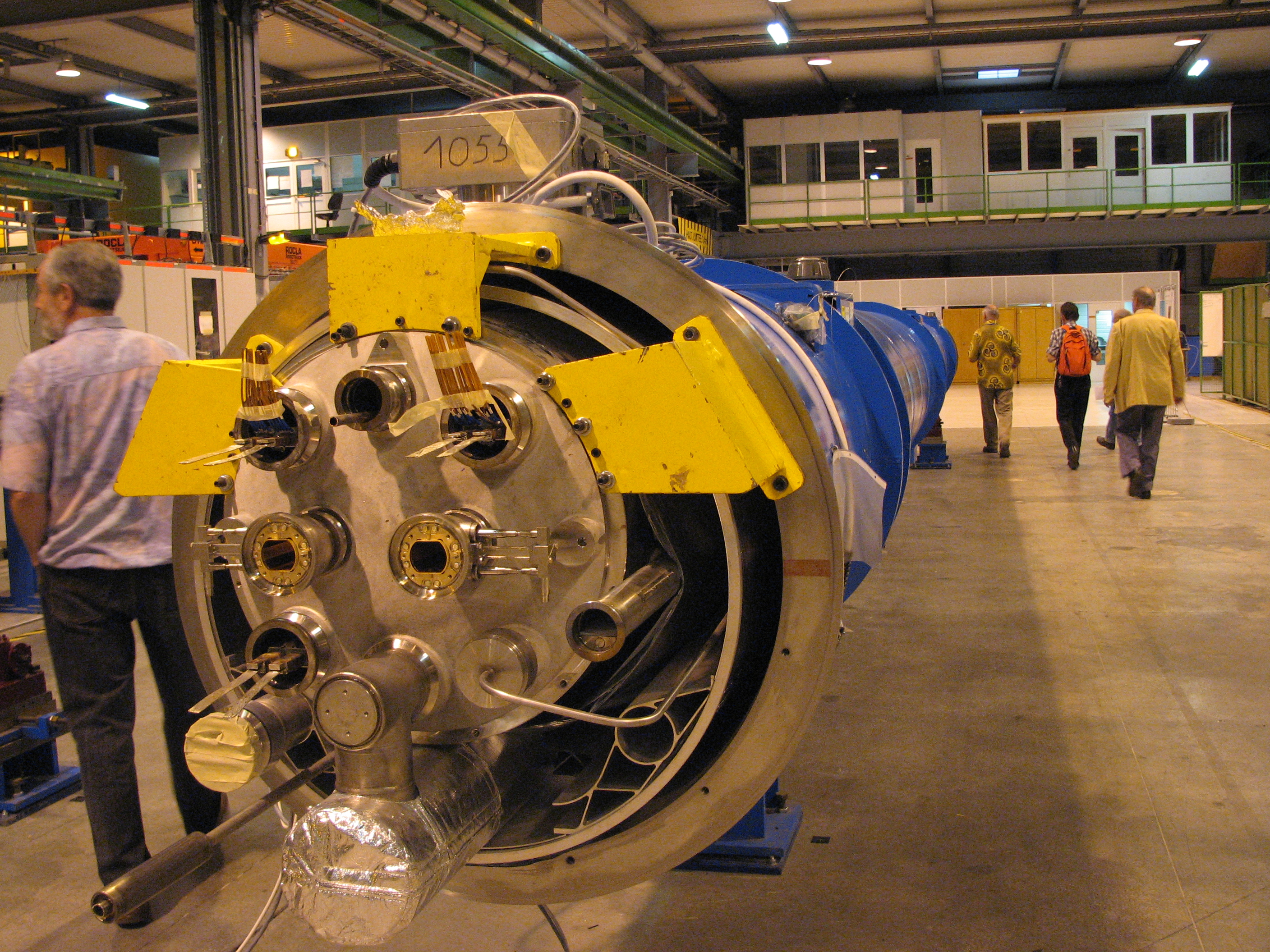 End of an LHC dipole